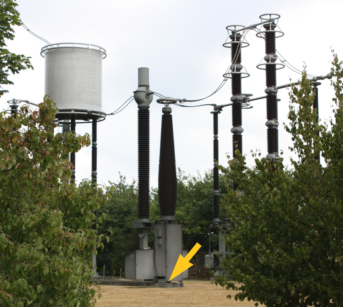 Baltic Cable endpoint at Lübeck Herrenwyk